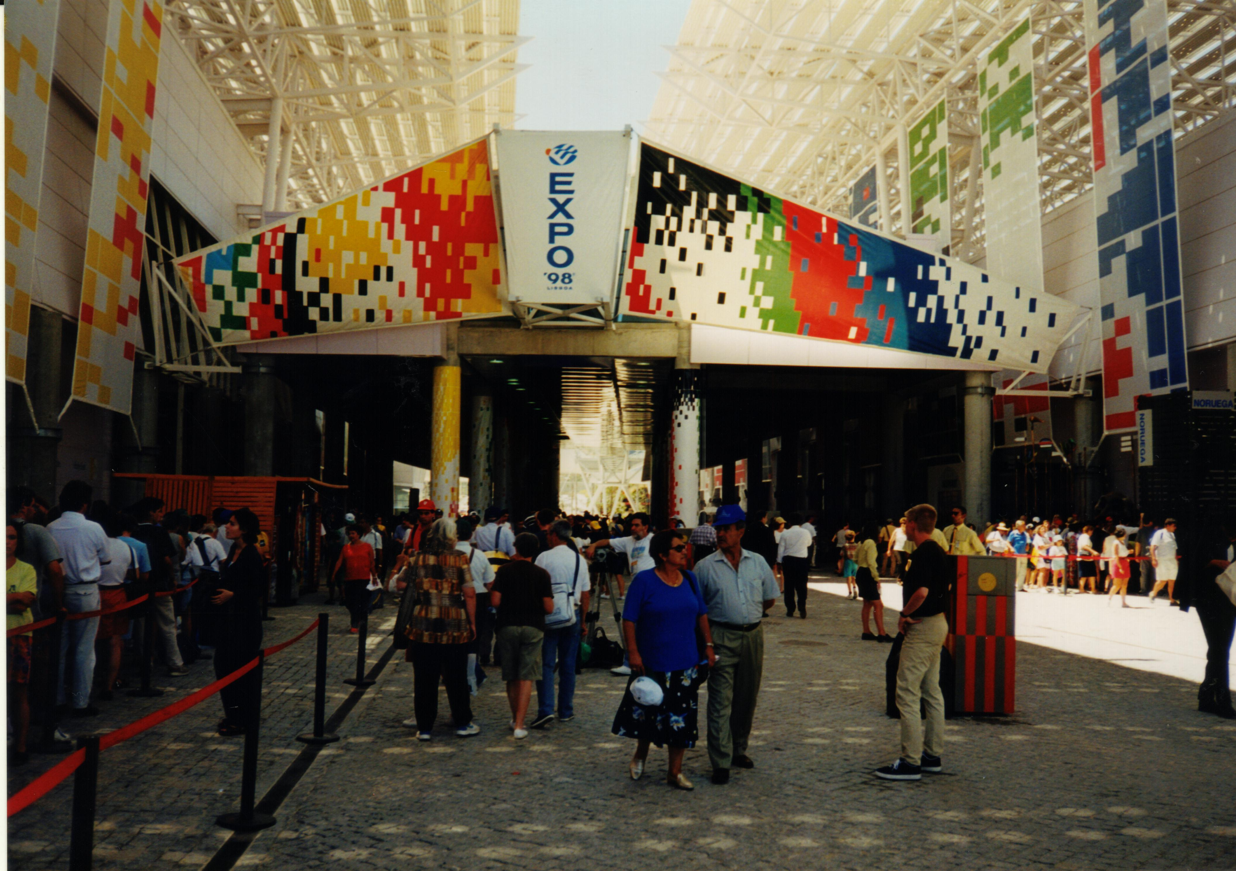 Entrance to one of the pavillions on the Expo 1998 in Lisbon